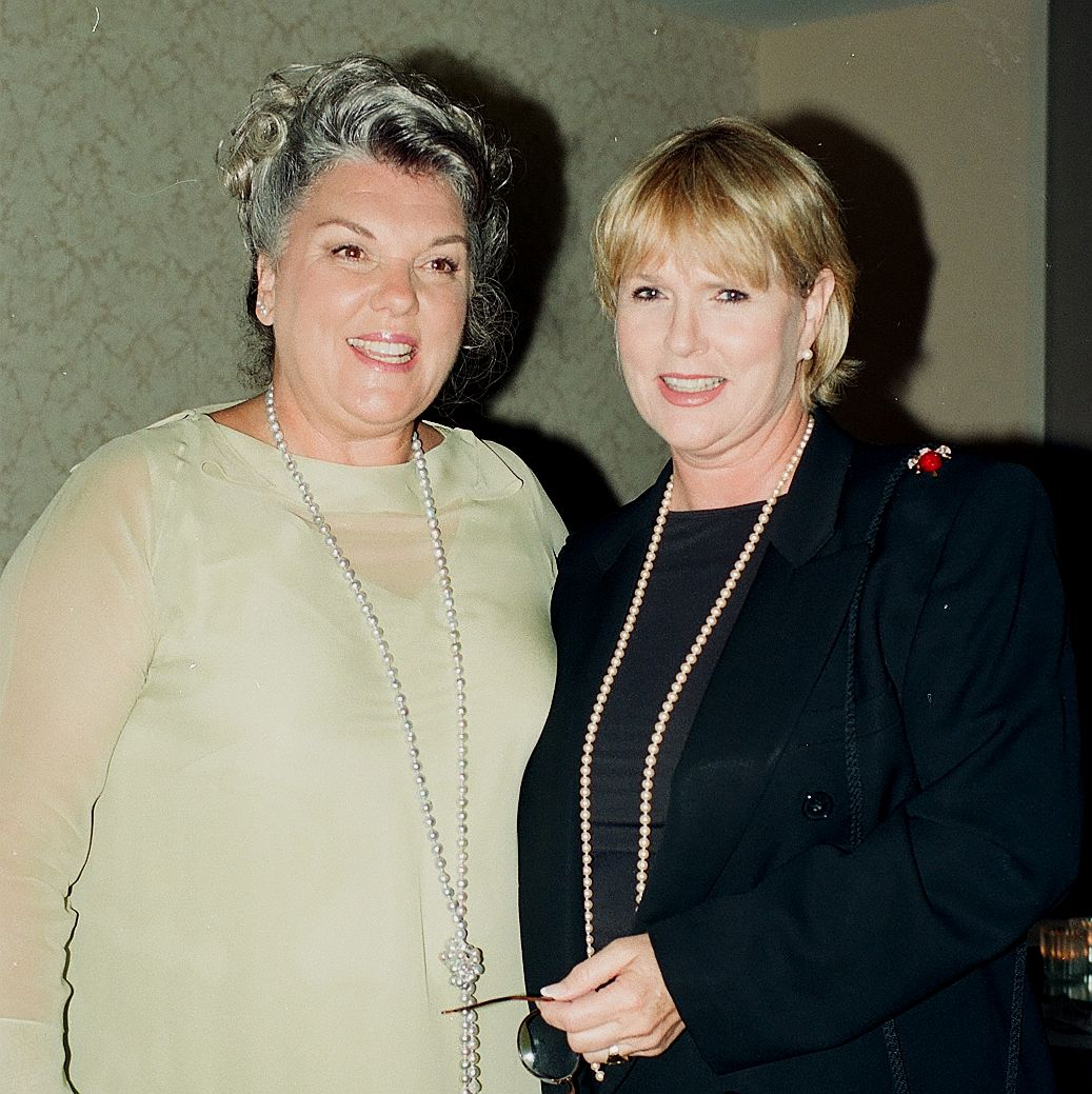 From Wash. D.C. June 24, 1999